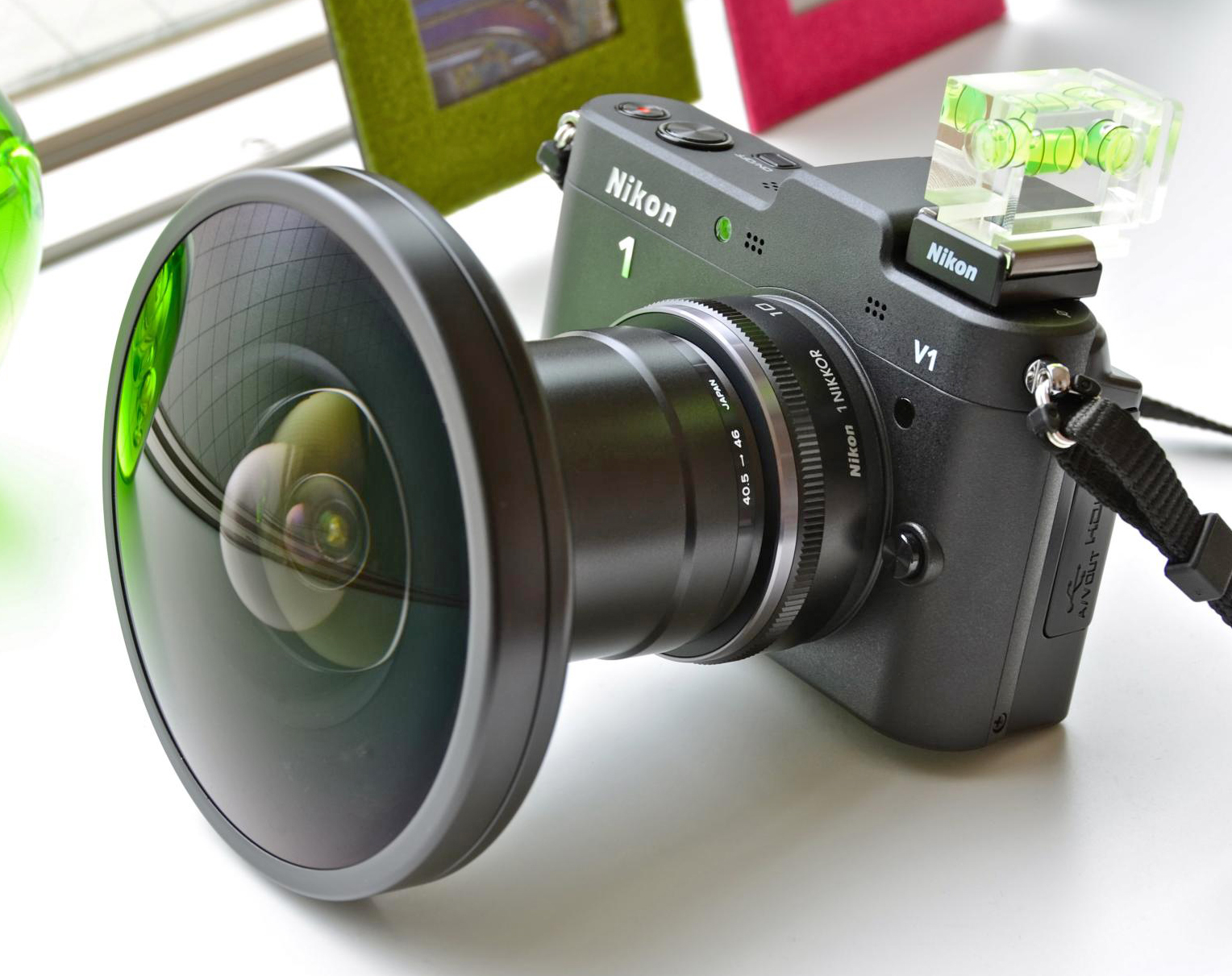 Nikon 1 V1 with Nikon FC-E9 fisheye converter lens.